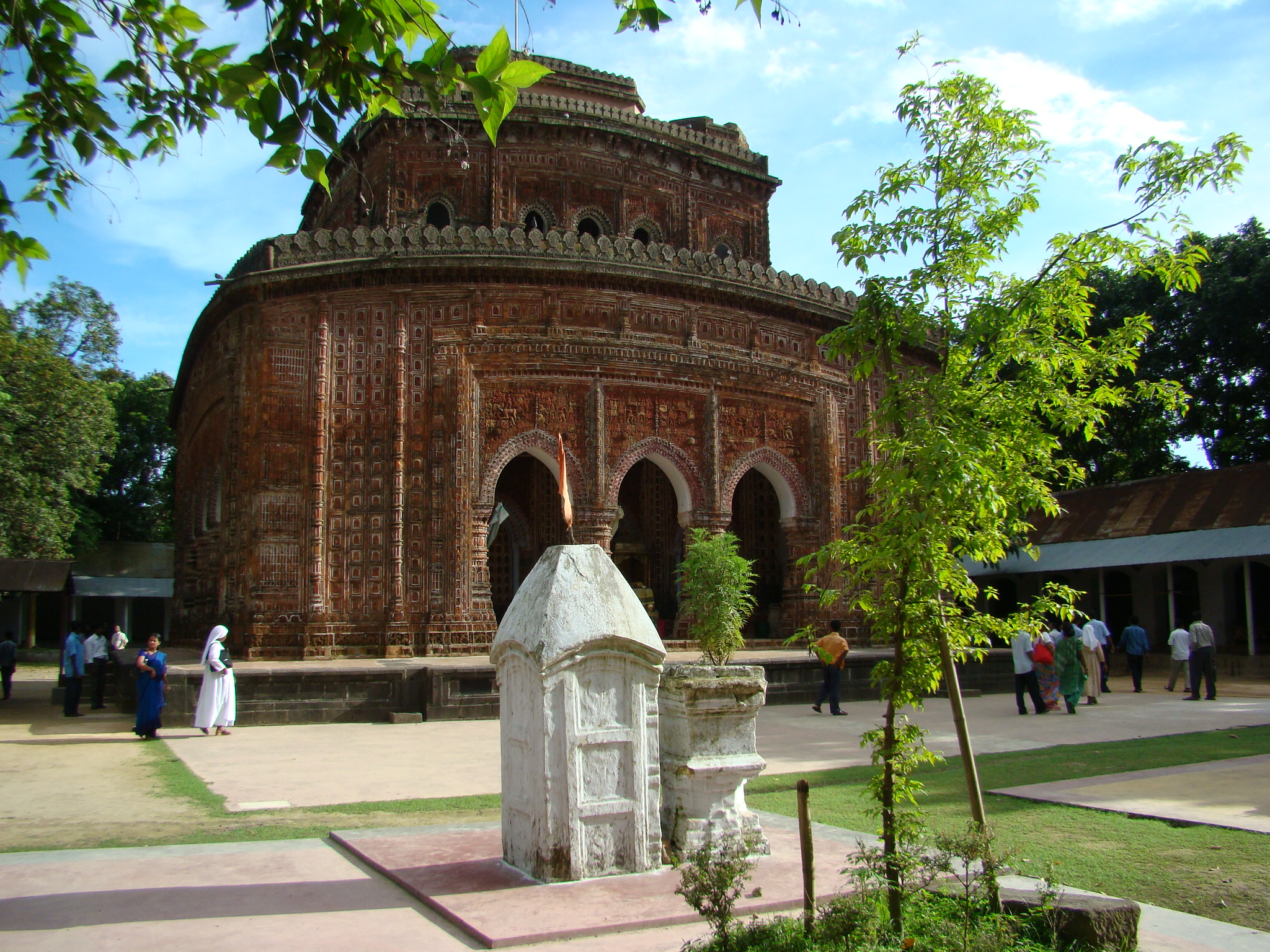 Kantaji (Kantanagar) Temple Dinajpur Bangladesh